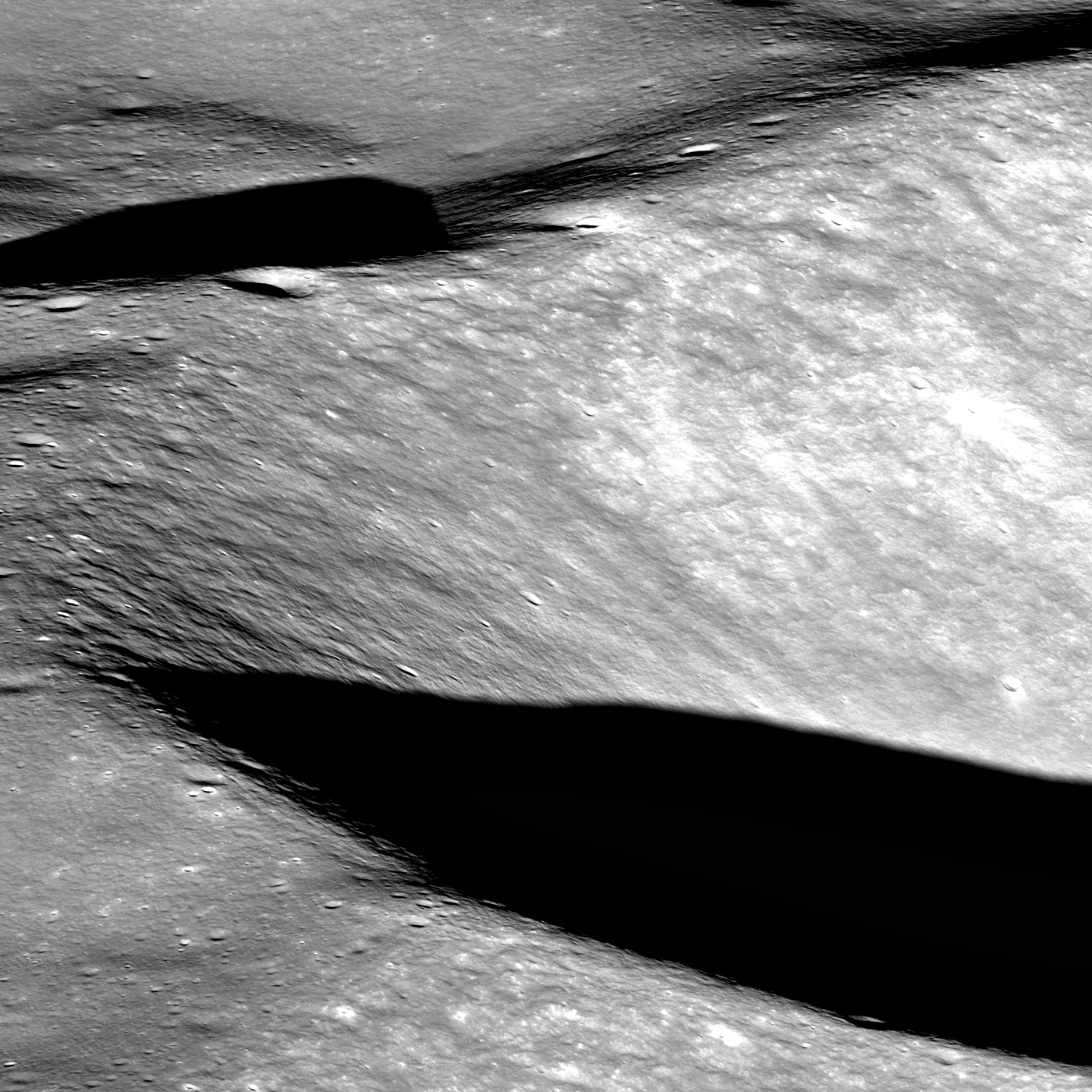 As LRO slewed to obliquely view Aitken crater (17 January Featured Image), the northern edge of Vertregt J was serendipitously captured by the NAC. North to the left, image is about 6 km wide [NASA/GSFC/ASU].